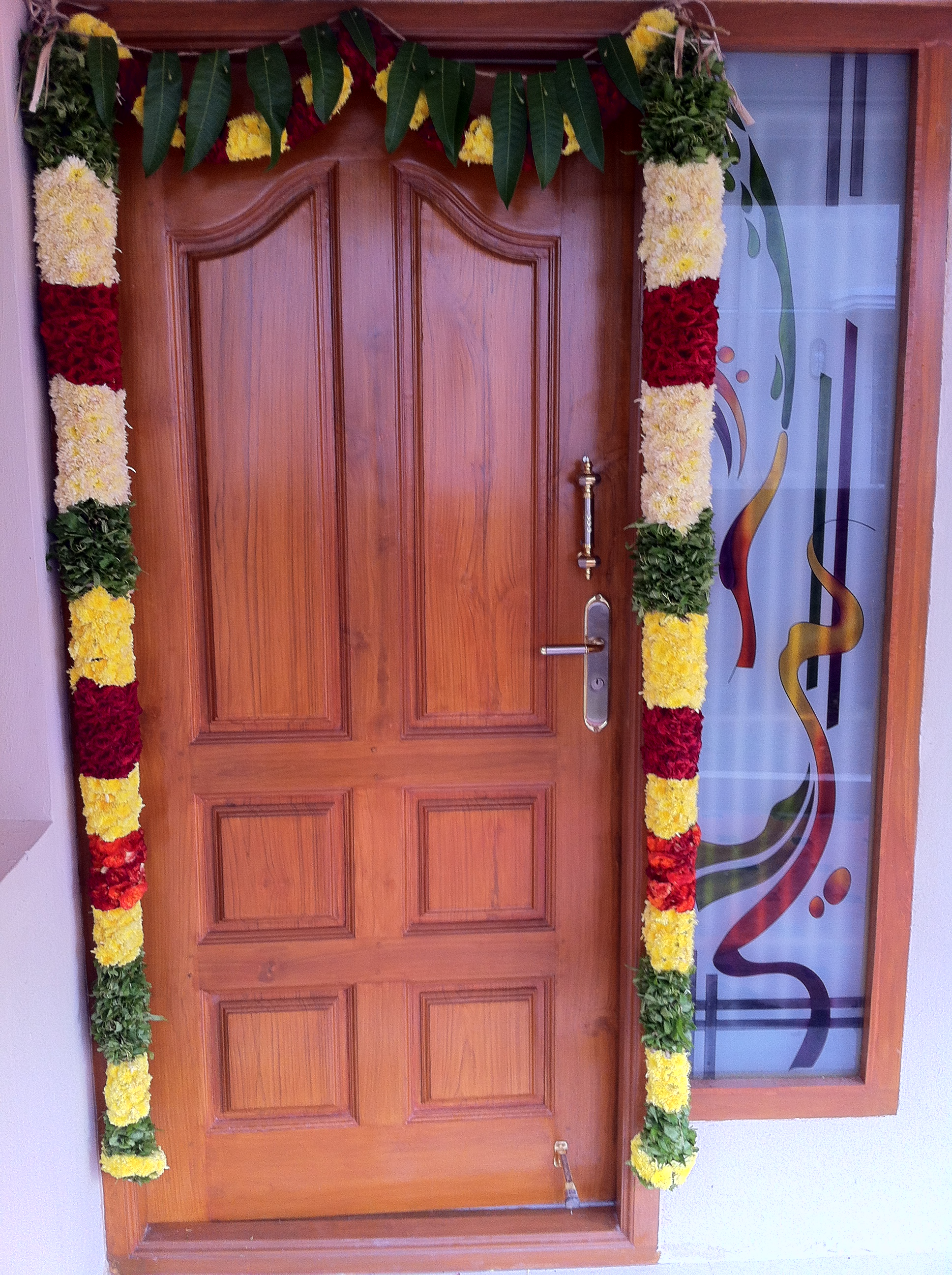 Nilai Maalai - Main Door decorated with Flower Garland